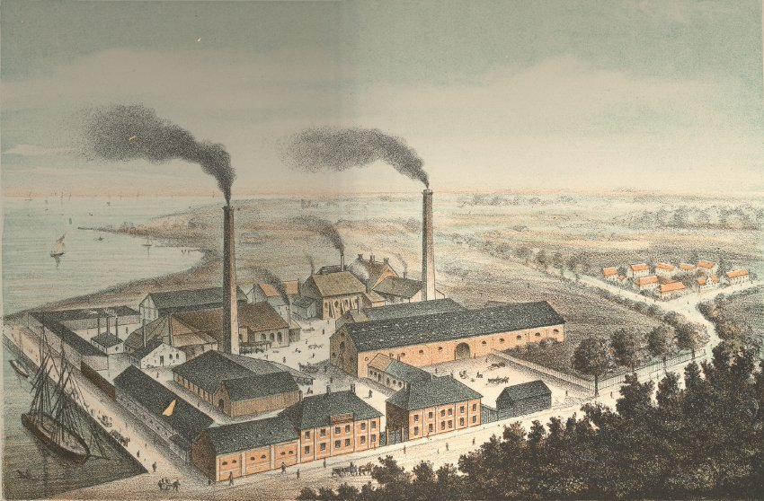 Kastrup Glasværk on Amager in Denmark